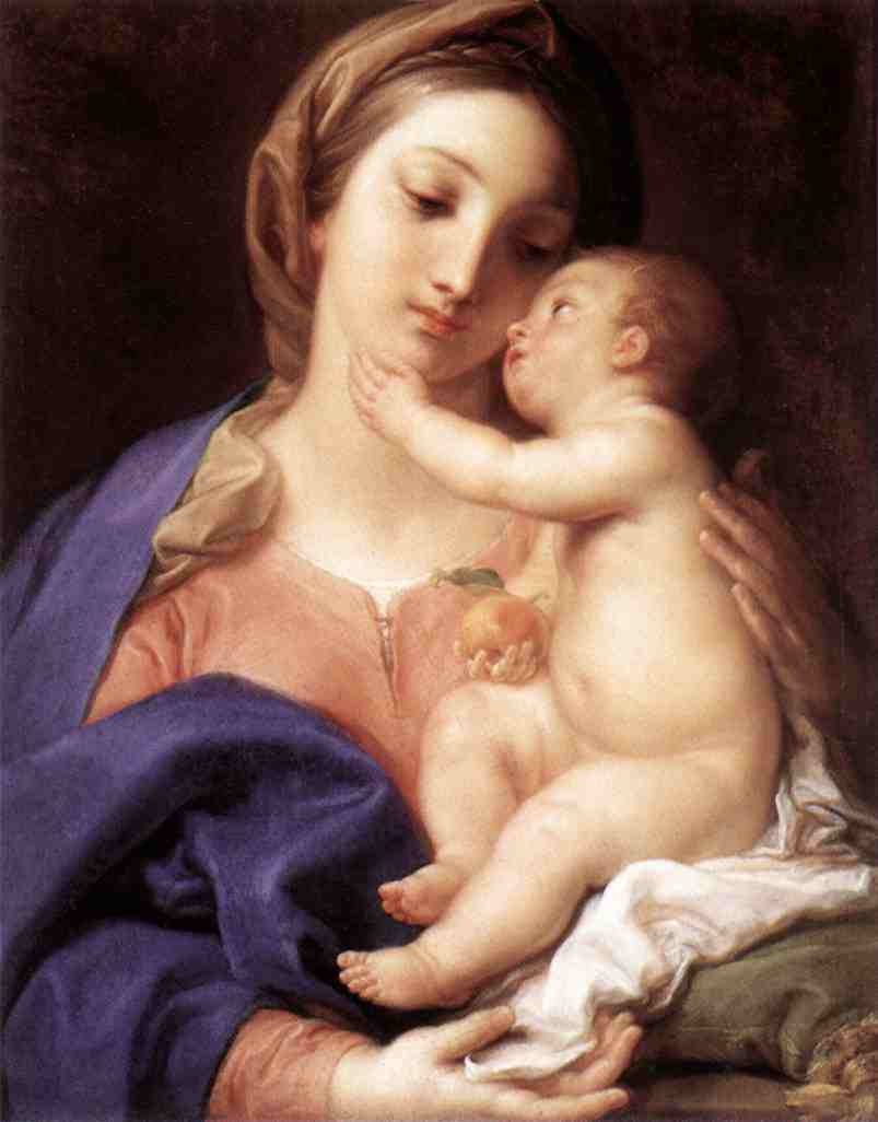 Madonna and Child (Galleria Borghese, Rome)Oil on canvas